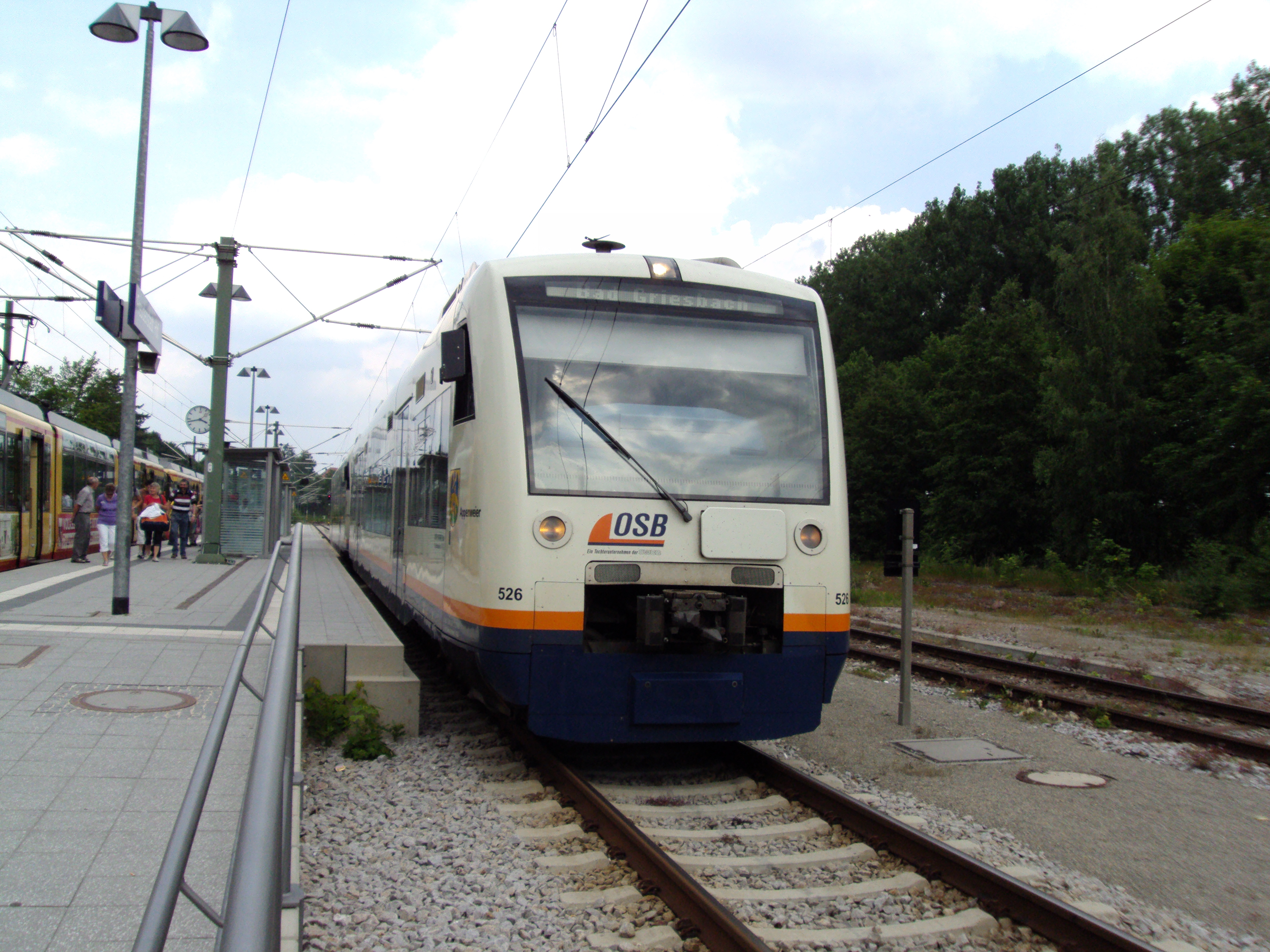 Regio-Shuttle of the Ortenau-S-Bahn in Freudenstadt Hbf as local OSB 87506 to Offenburg and Bad Griesbach